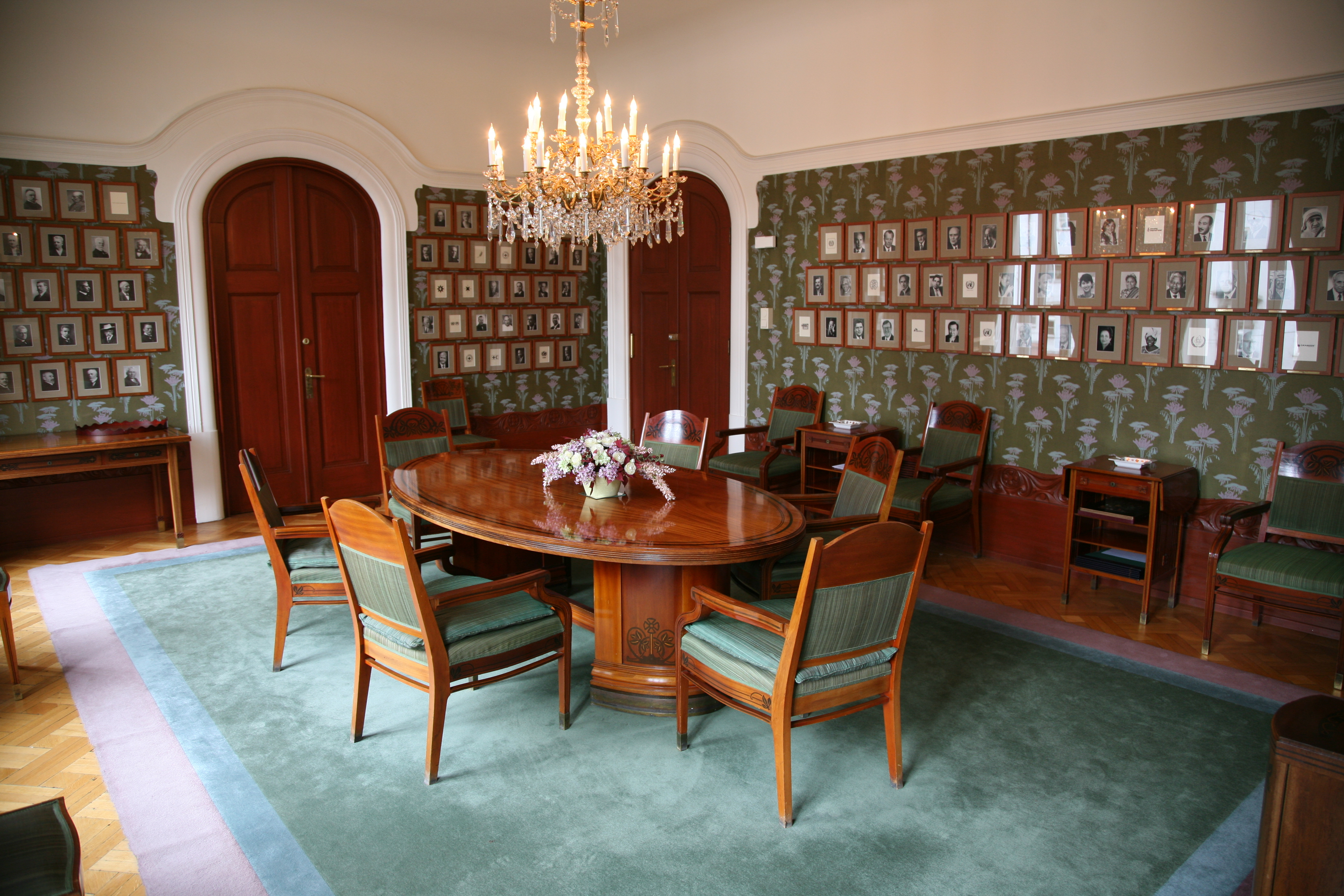 The committee room of the Norwegian Nobel Committee. On the walls are portraits of all the winners of the Nobel Peace Prize.